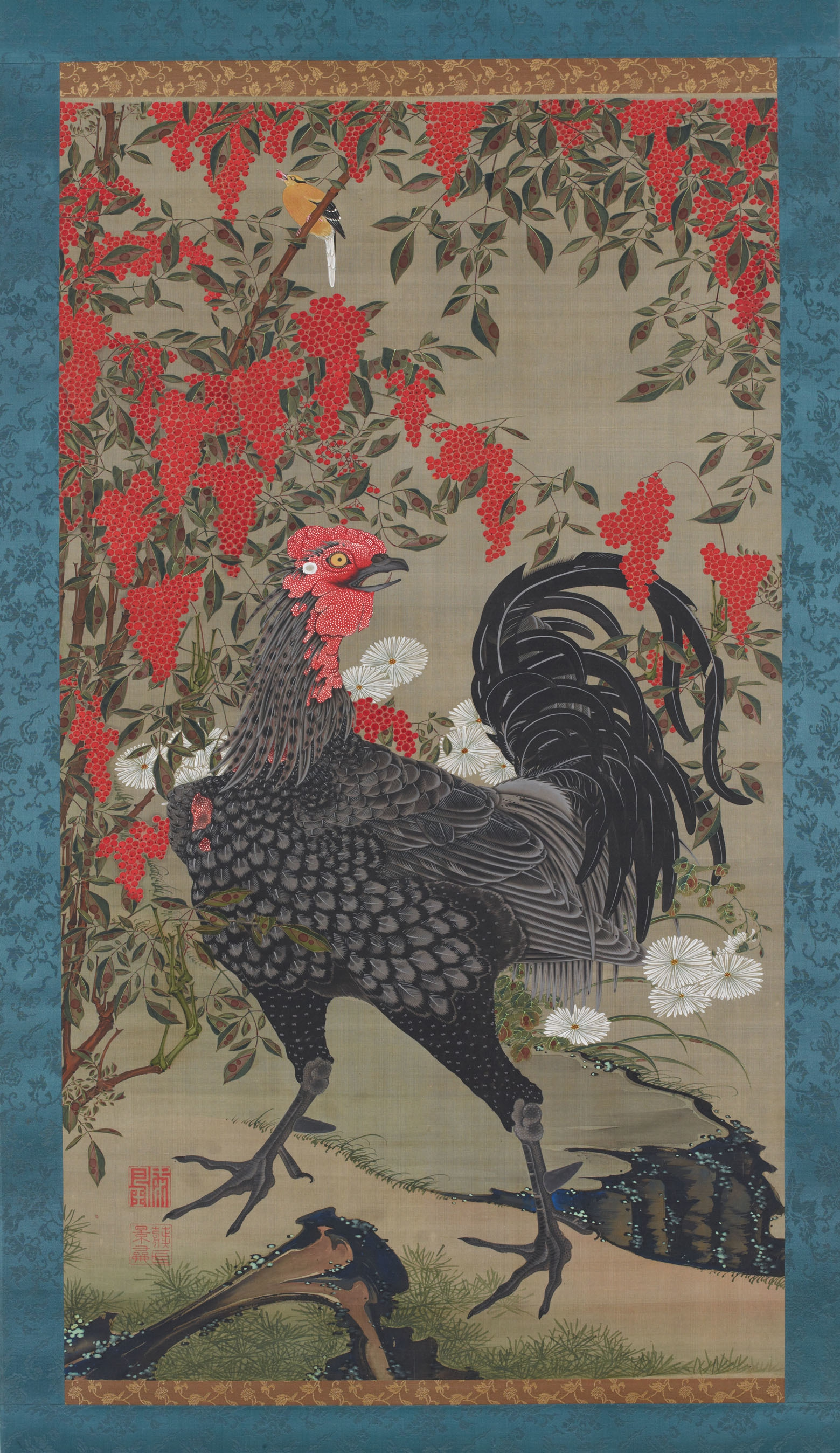 Nandina and Rooster from the Colorful Realm of Living Beings by Itō Jakuchū, c. 1761-65 (Edo Period)